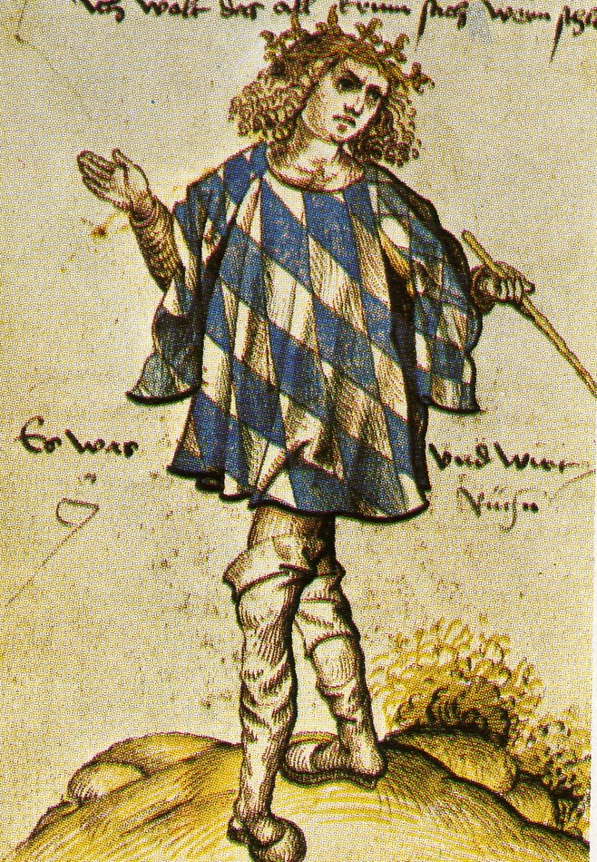 The Bavarian Herald Jörg Rügen around 1510.